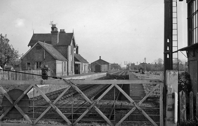 Billingborough & Horbling Station (remains). View southwards, towards Bourne; ex-GN Bourne - Sleaford branch. Station and line closed to passengers 22/9/30, to goods 28/7/56 (from Sleaford) 15/6/64 (from Bourne).